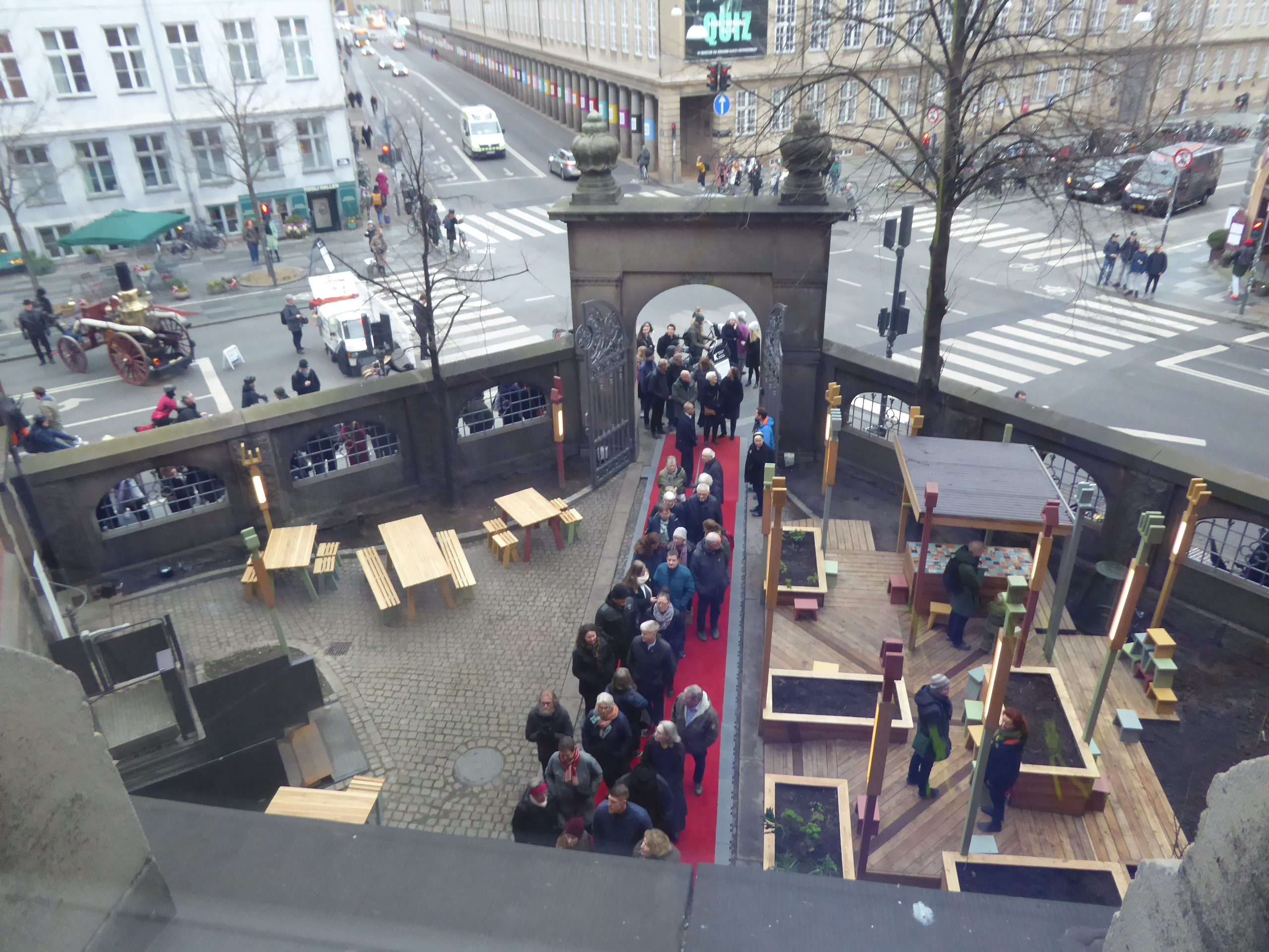 The museum of Copenhagen reopened at the corner of Stormgade and Vester Voldgade. A half hour after the opening for the public many people were still waiting to get inside as the museum could only room a certain numbers of visitors. It was free of charge that day.